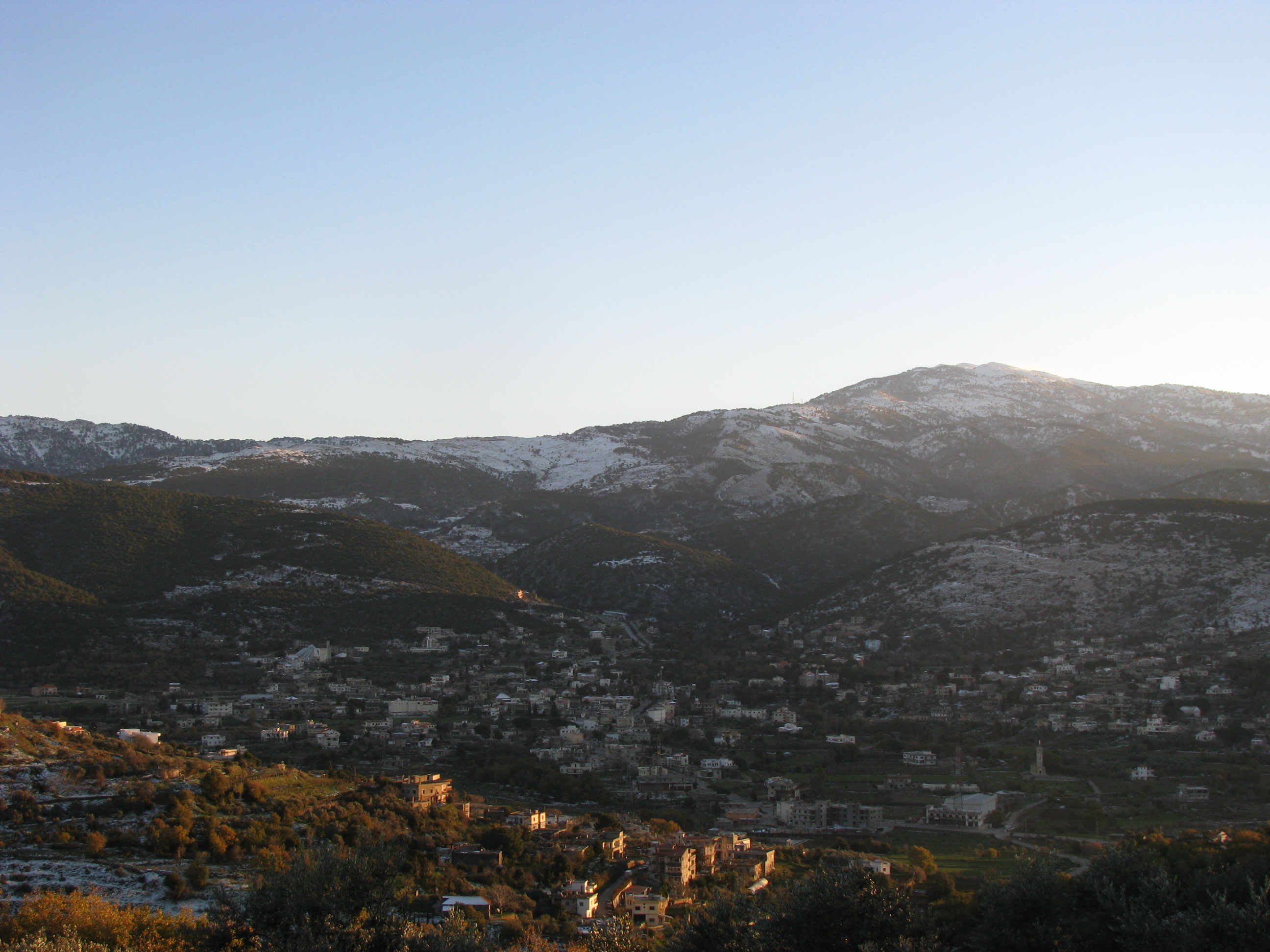 General view for Kobayat